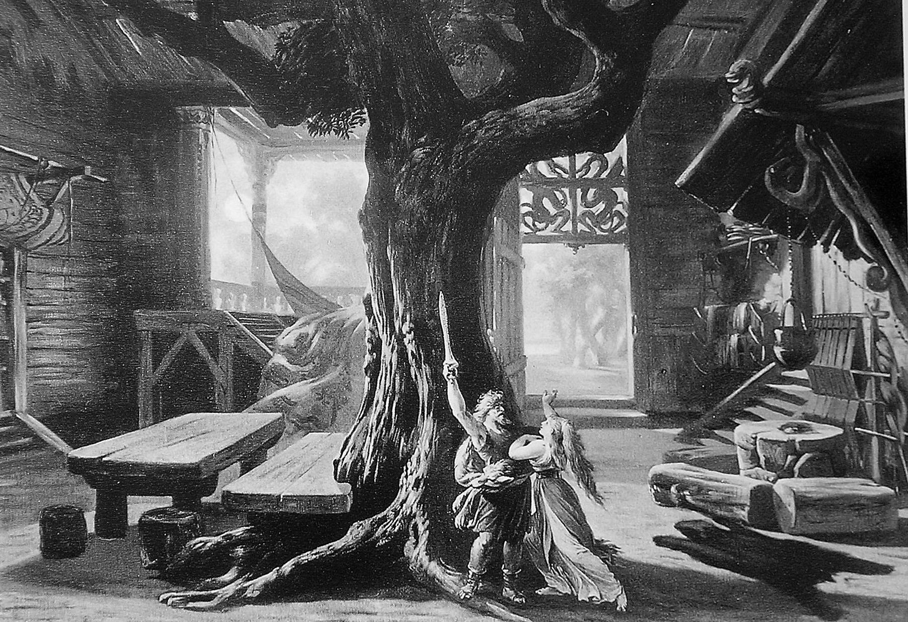 This is a monochrome photograph taken of Hoffman's 14 set designs (number 4) for Wagner's Der Ring des Nibelungen opera in 1876. Hoffman authorized Angerer to publish and sell copies of the photographs.[1] The uploader, JosefLehmkuhl, has failed to specify from where he scanned this image.